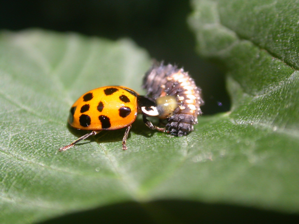 An adult Harmonia axyridis eating a prepupa of the same species that shows an abundant reflex bleeding.